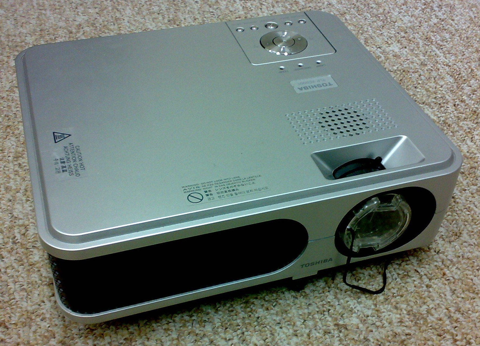 Toshiba Toshiba TLP XD2000.